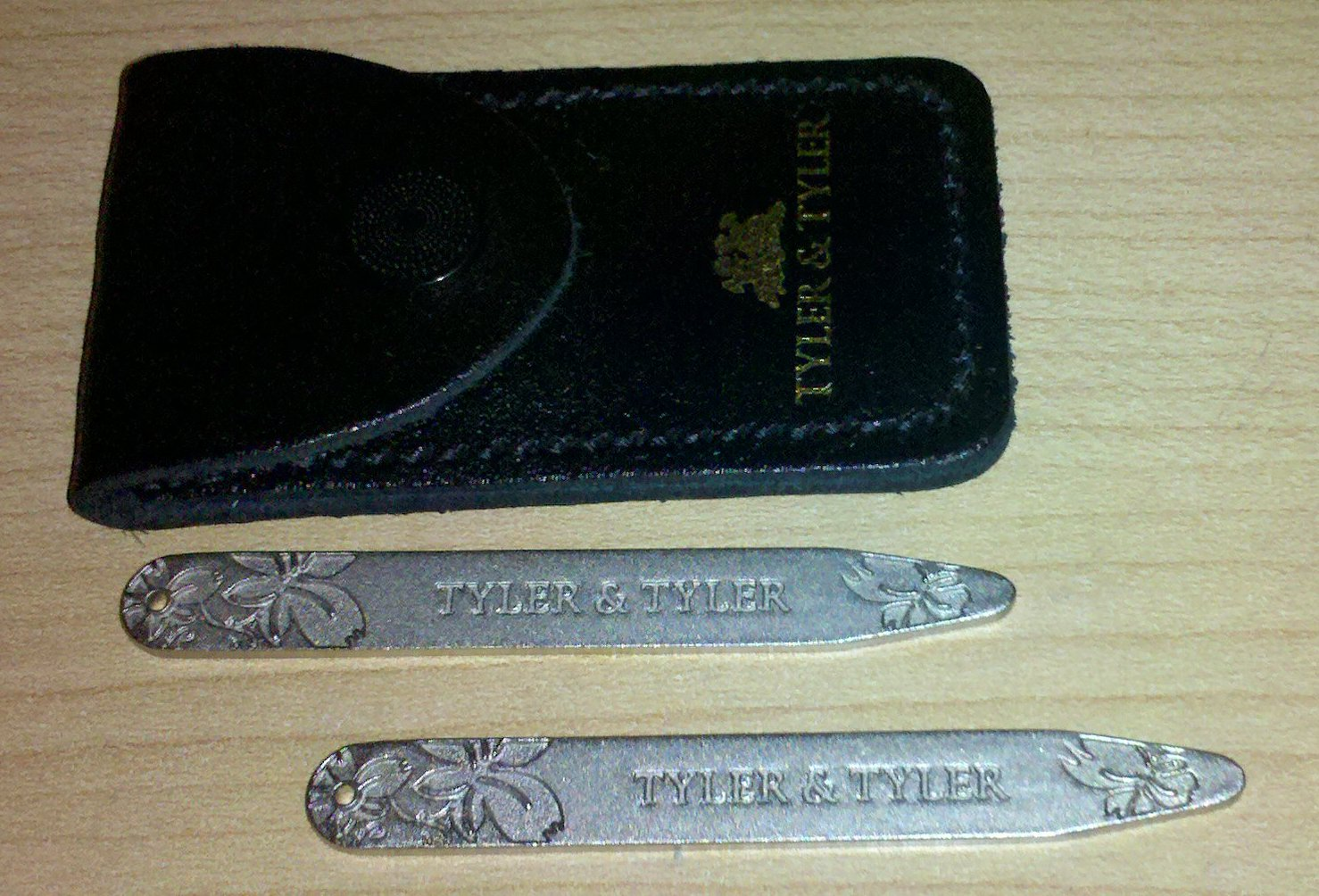 A pair of collar bones/stays/stiffs by Tyler & Tyler